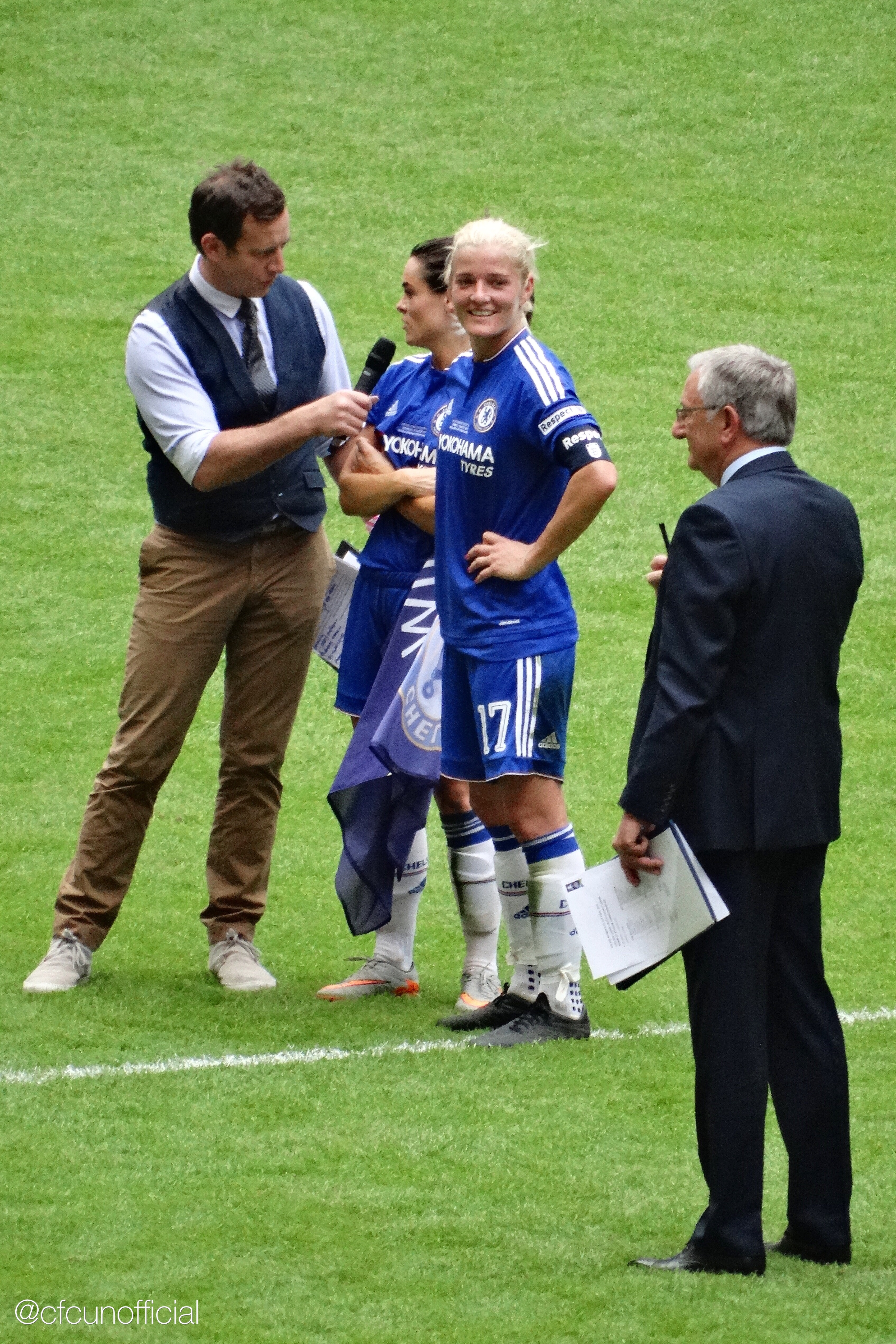 Chelsea captain Katie Chapman waiting to be interviewed